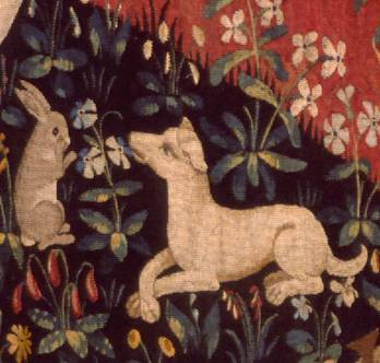 The Lady and the Unicorn (French: La Dame à la licorne) also called the Tapestry Cycle is the title of a series of six Flemish tapestries depicting the senses. They are estimated to have been woven in the late 15th century in the style of mille-fleurs